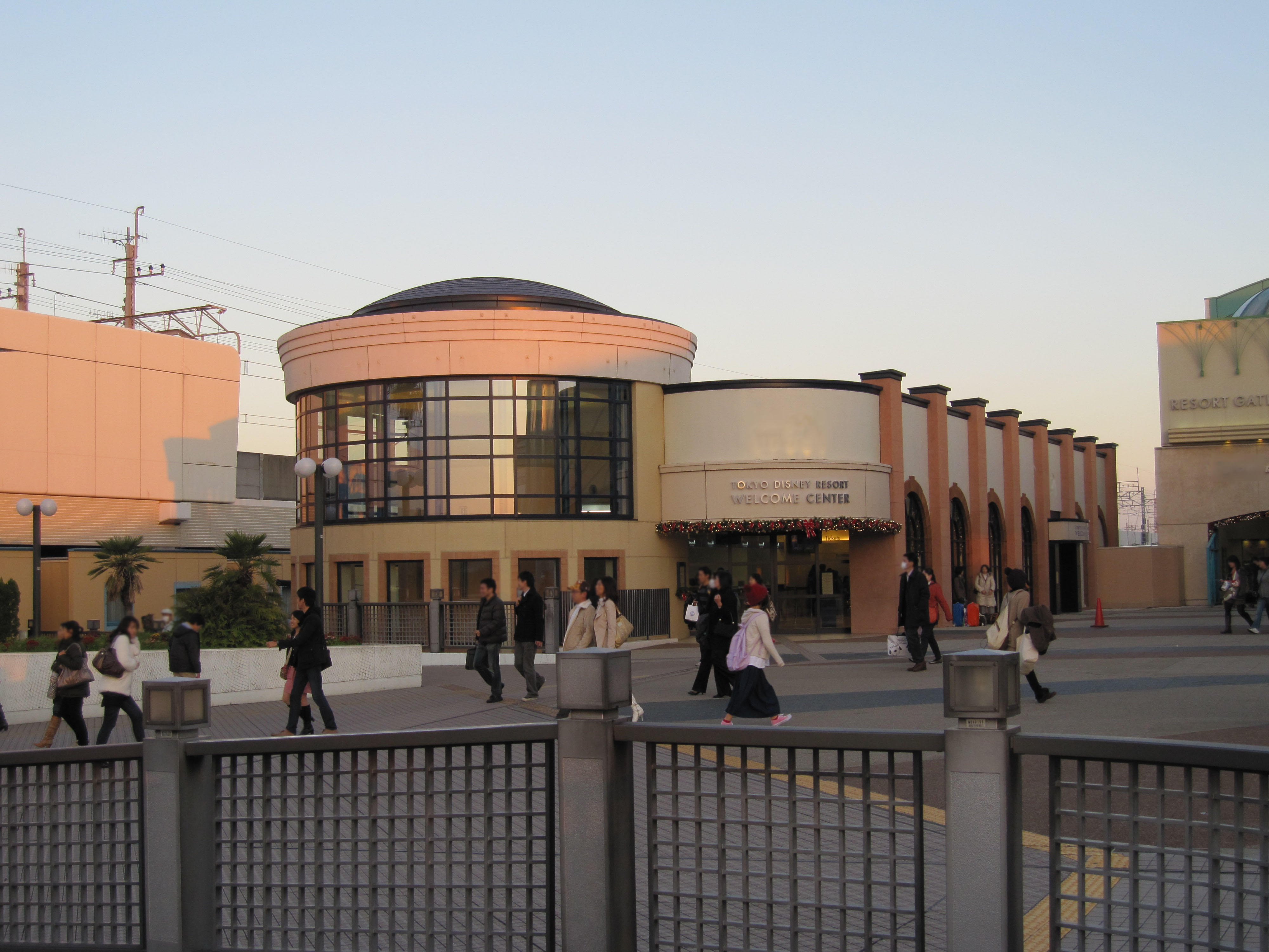 Tokyo Disney Resort Welcome Center in Maihama